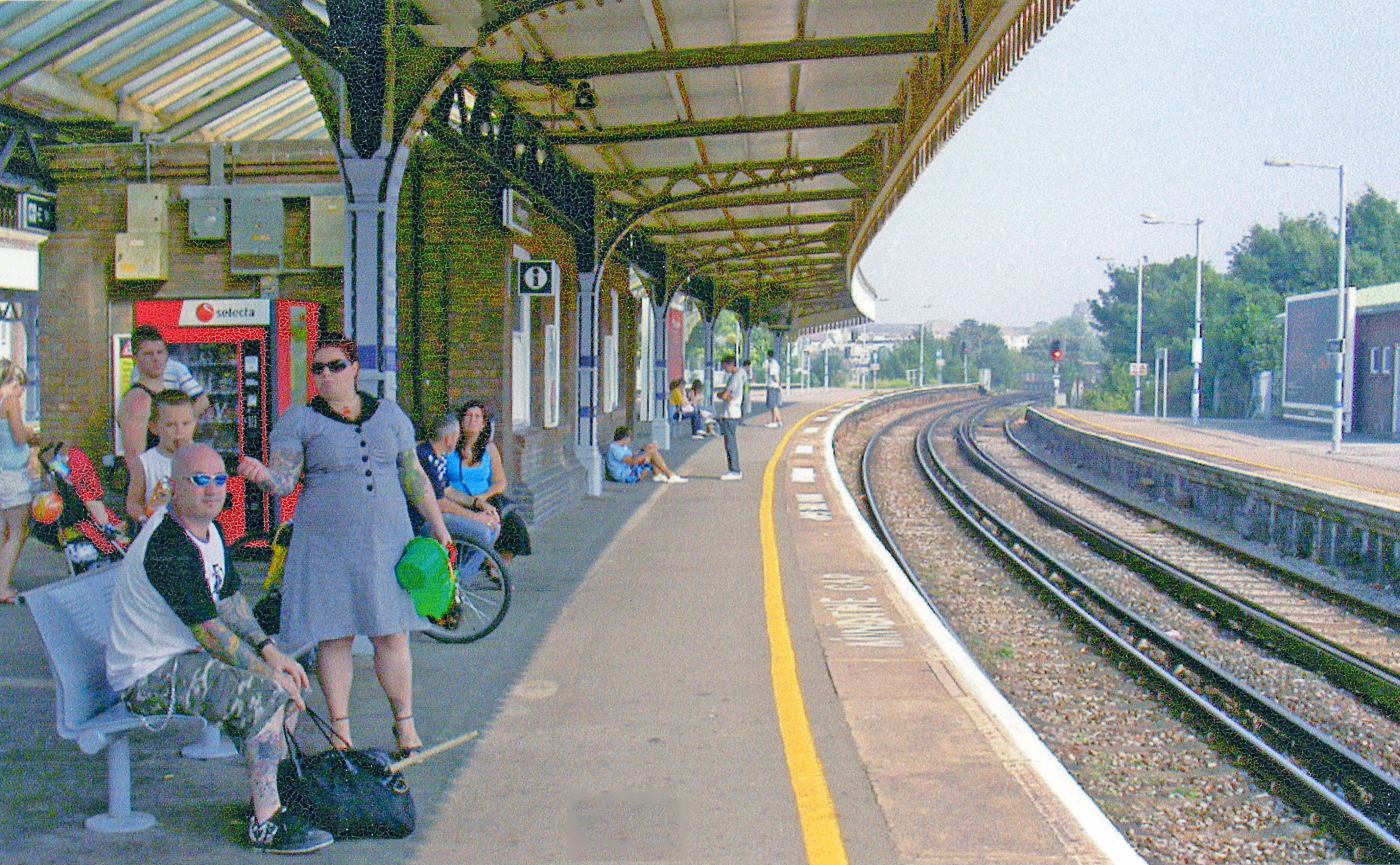 Margate station, 2008. View eastward on Platform 3, towards Ramsgate: ex-SE&CR London - Chatham - Ramsgate main line.